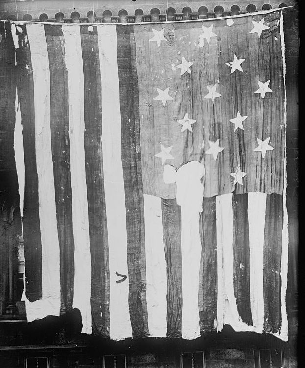 The Star Spangled Banner Flag. Original title: The original Star Spangled Banner "Museum" (from unverified data provided by the National Photo Company on the negative or negative sleeve.) This glass negative might show streaks and other blemishes resulting from a natural deterioration in the original coatings. [Image cropt from LOC file before upload to Wikimedia.]